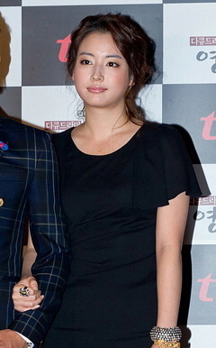 Jeong Da-hye in September 2011